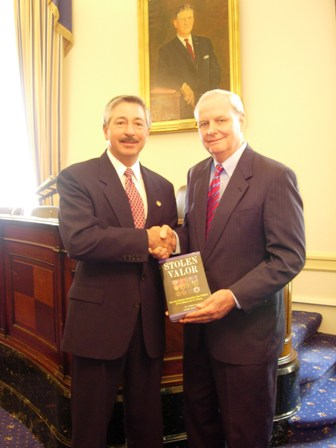 Congressman John Salazar meets B.G. Burkett, author of "Stolen Valor."